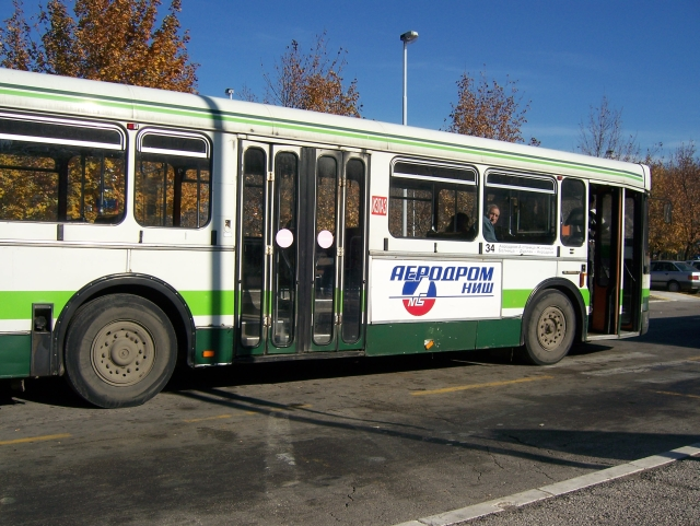 Airport Nis bus line